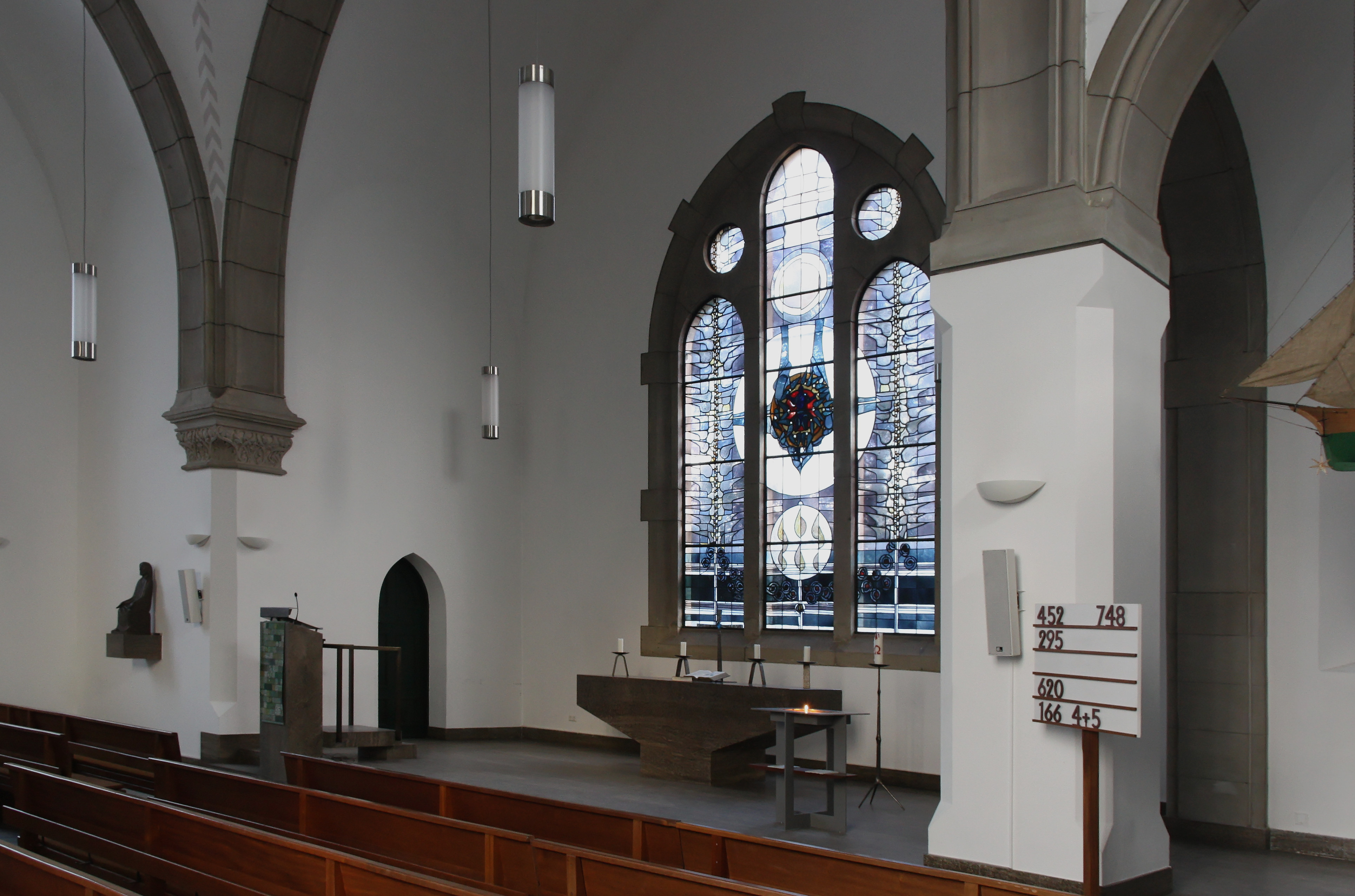 Hamburg-Othmarschen, Church of Christ, altar and main window